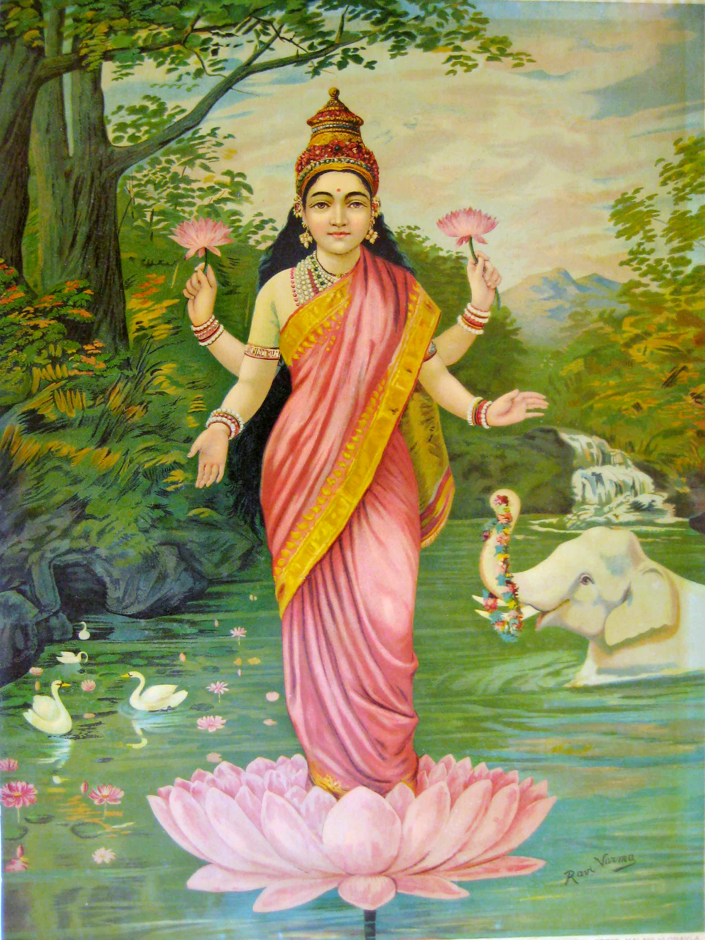 Lakshmi, the goddess of wealth.